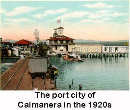 The port city of Caimanera in the 1920s, in southeastern Cuba. One of the nearest coastal settlements to the Guantanamo Bay Naval Base.